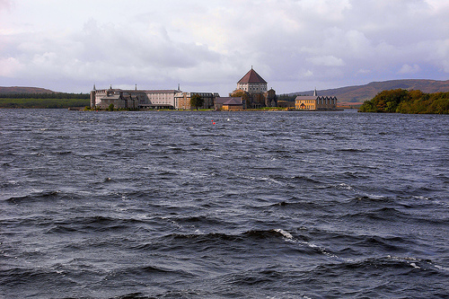 Station Island on Lough Derg, County Donegal, Ireland.